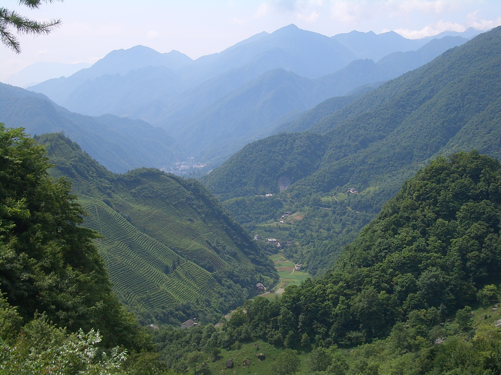 The slopes of the valley (along which G209 runs) north of Muyu, covered with woods and tea plantations. The north end of Muyu Town can be seen in the valley in the background